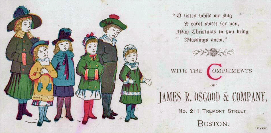 "O listen while we sing a carol sweet for you, may Christmas to you bring blessings anew." With the compliments of James R. Osgood & Company, no. 211 Tremont Street, Boston. The glad year round. For boys and girls. By Miss A.G. Plympton. ... A series of new poems ...